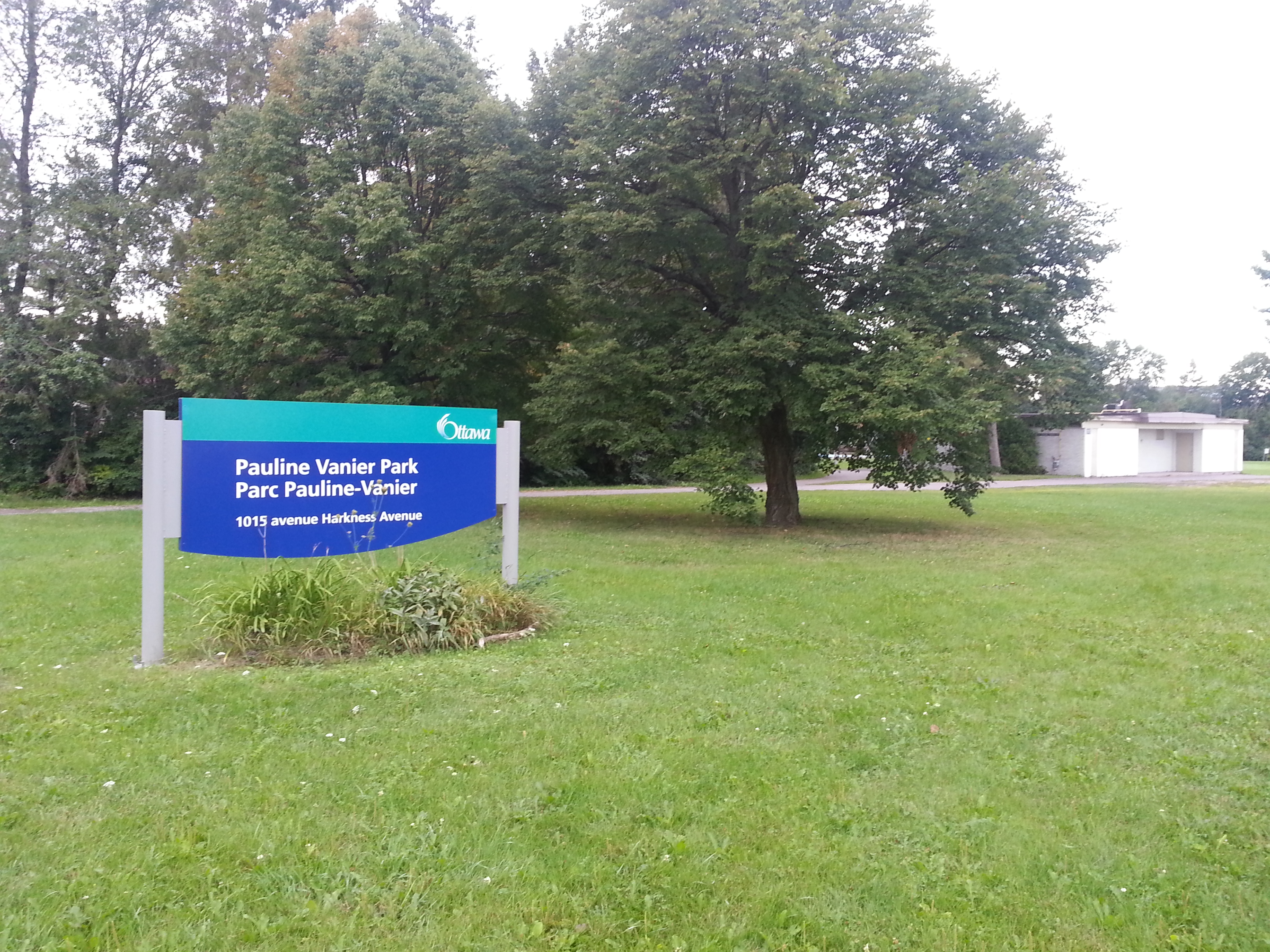 View of the sign of Pauline Vanier Park, in Ottawa's Riverside Park East neighborhood. The park pavilion, a white brick structure, is visible in the background.